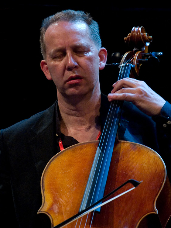 Ernst Reijseger at Moers Festival 2007 self made/own work, may 25, 2007 photo: nomo/michael hoefner